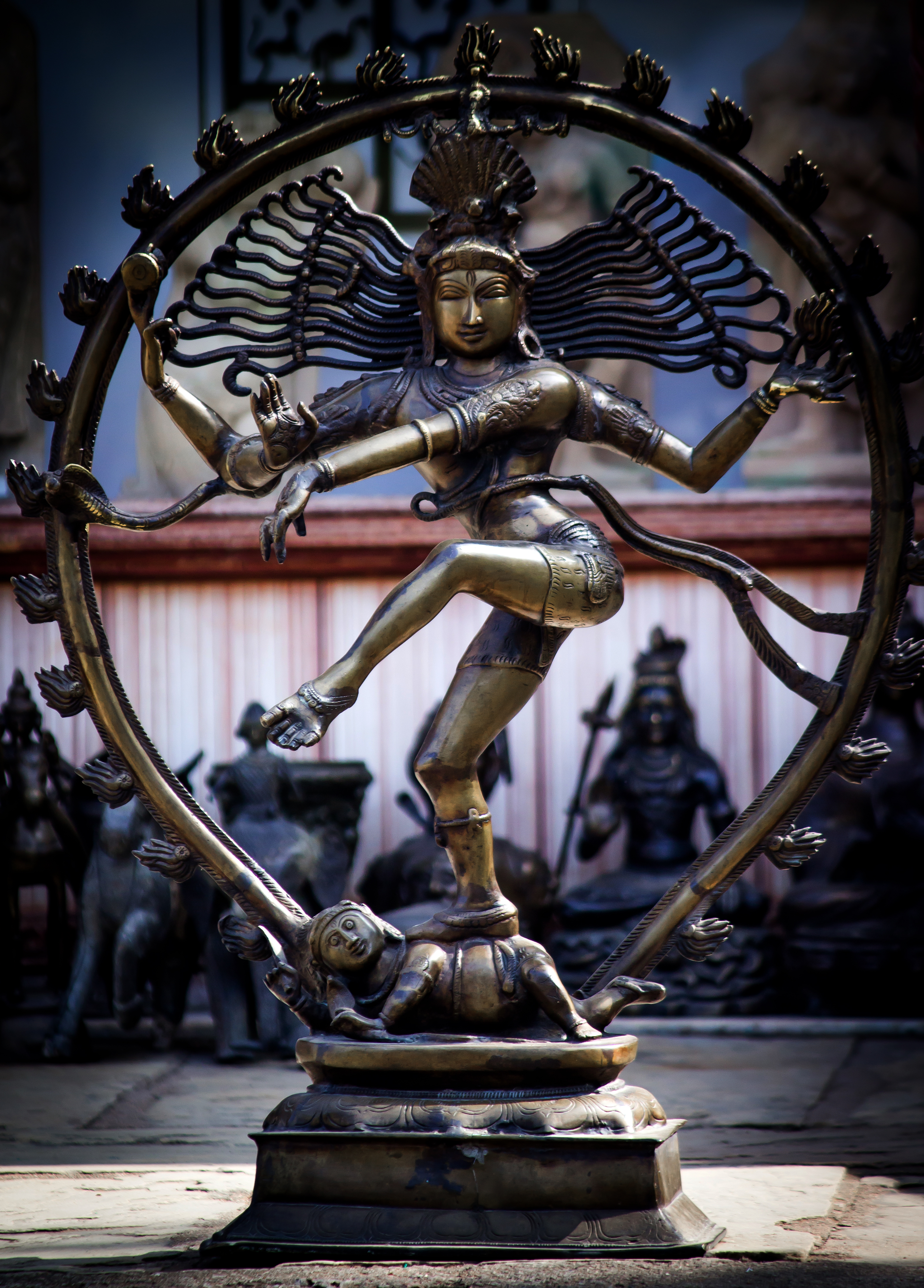 The profusely carved figures on the walls of Khajuraho Temples have been classified broadly into 5 categories. 1. The first category comprises images of principal deities like Shiva, Ganesha, Vishnu, Surya and Jain Tirthankaras which were carved strictly in accordance with History. 2. The second category is of divinities, minor Gods and #Goddesses, Apsaras and Surasundaris on pillared riches. 3. The third category comprises of Mithunas that is couples engaged in sexual orgies which is most stimulating and open ways to many controversies. 4. The fourth category depicts group of dancers and musicians, hunting scenes, animal fight, army marching, sculptor at work, teacher teaching pupils and several other secular scenes depicting activities of contemporary period. 5. The fifth or the last category consists of sculptures of animals including the Vyala or Sardula - Heraldic and Fabulous beast looks like a lion.